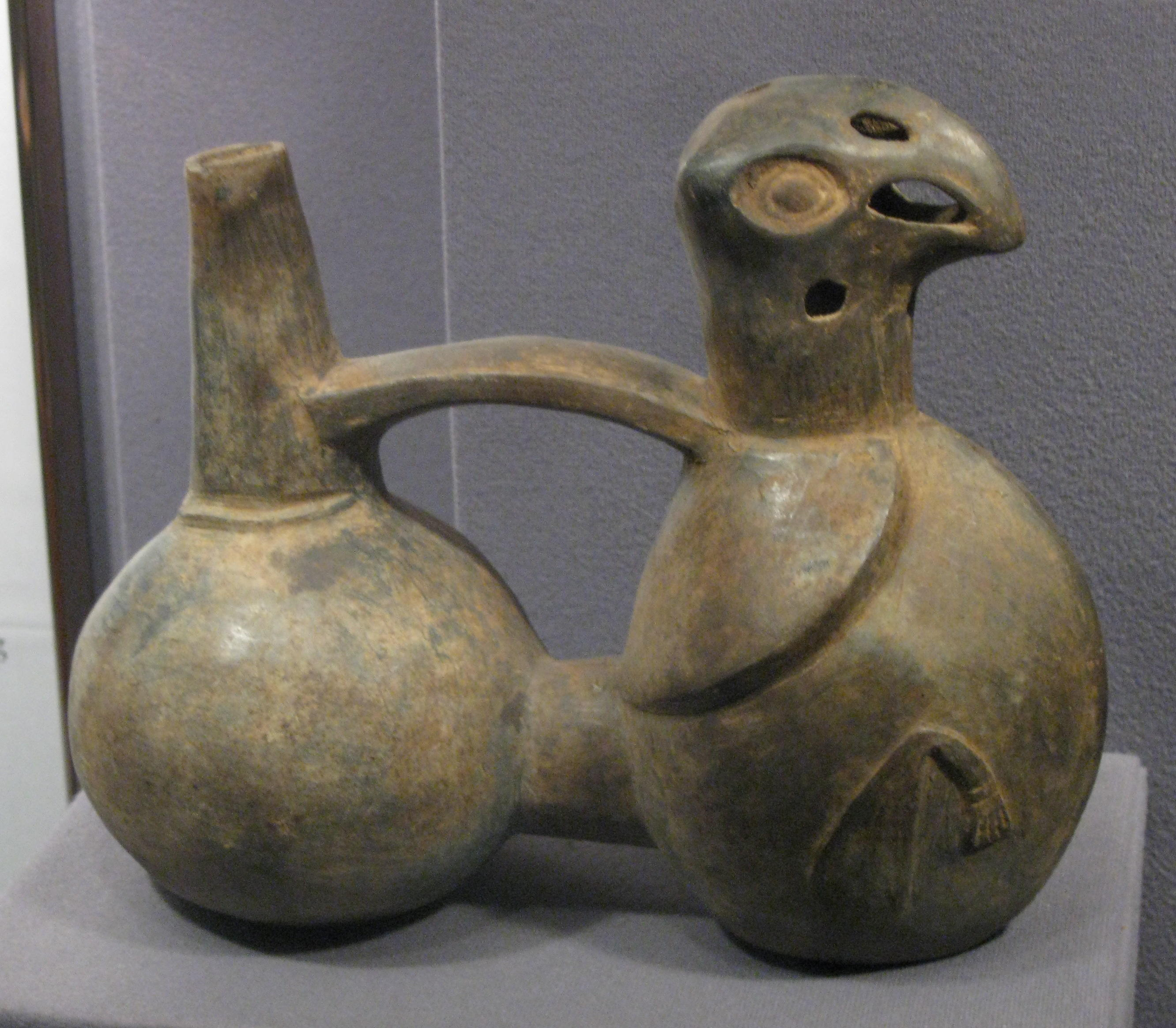 This moulded and burnished spouted-pot dates to the Chimú-Lambayeque (900-1476 AD) and was found in Peru. It is today part of UBC's Museum of Anthropology in Vancouver, Canada where its catalogue number is Sf621.